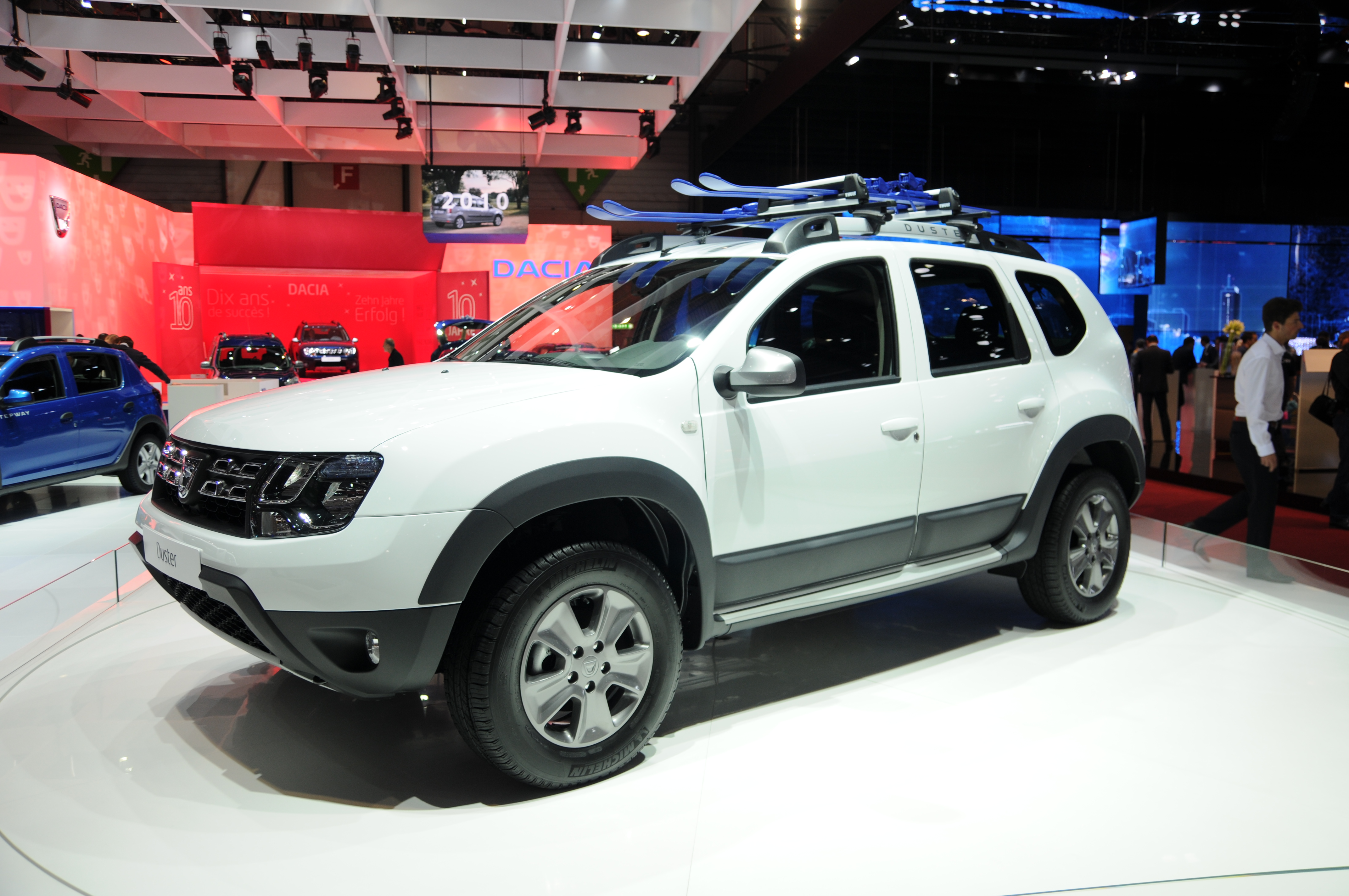 Geneva Motor Show 2015 (photo taken on the first press day)